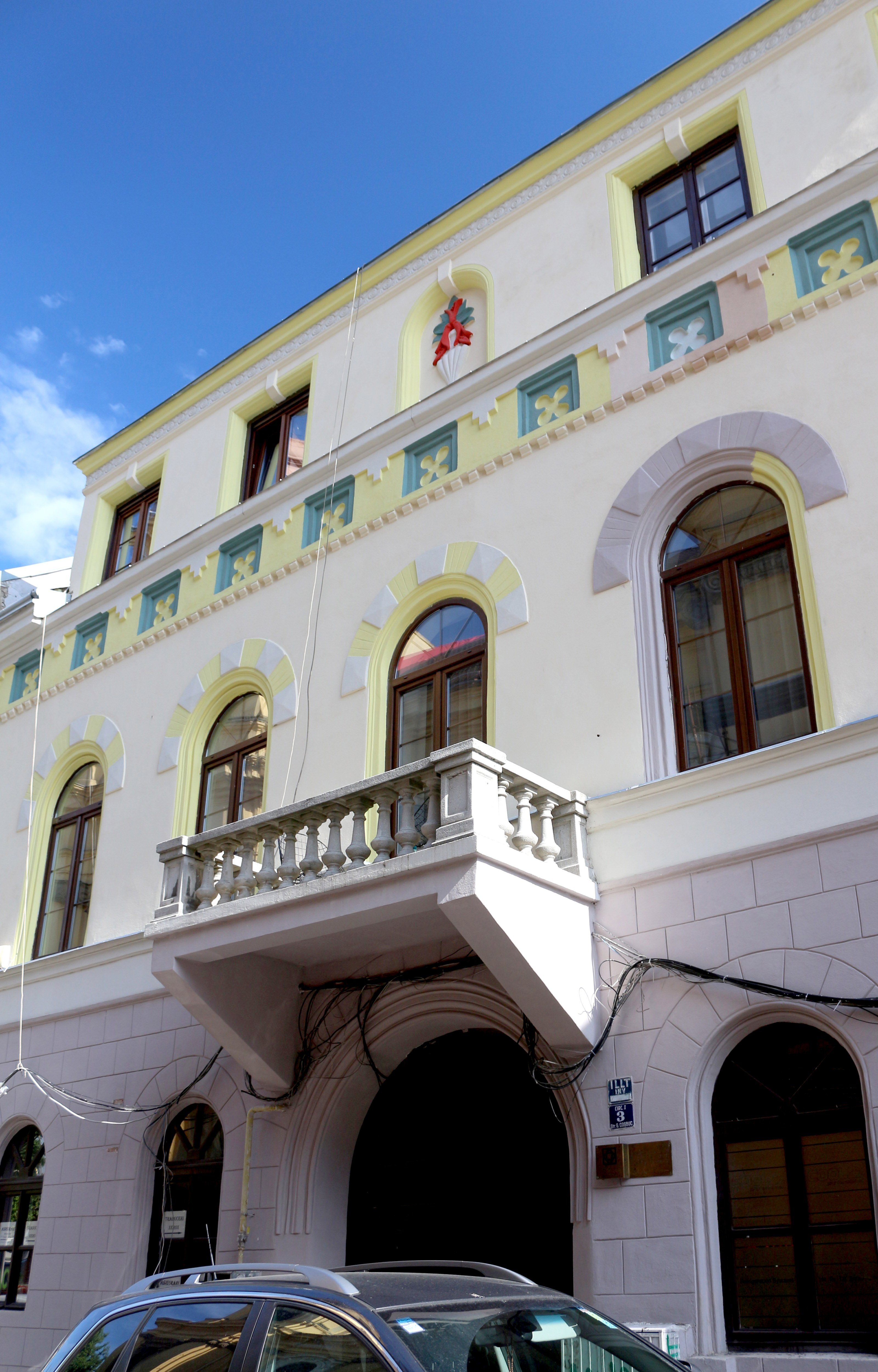 Nanet[te] Stojadinovich House, Timișoara, Romania, built 1786.